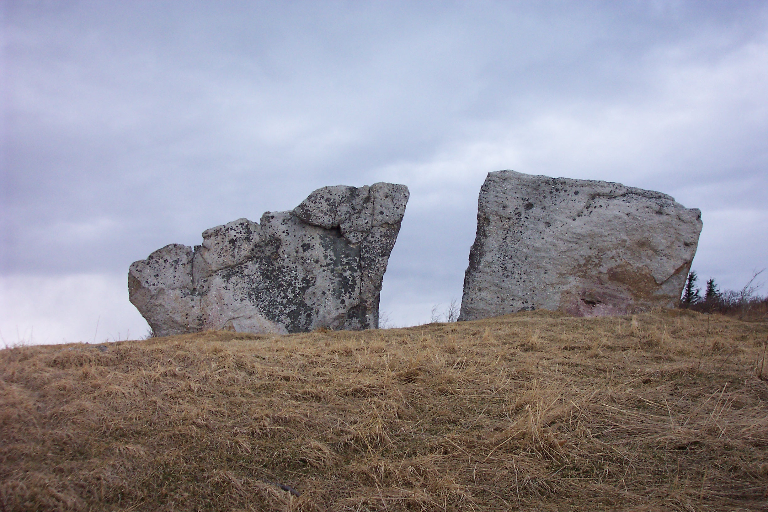 Boulders on top of Spruce Knob — a mountain in West Virginia, U.S.